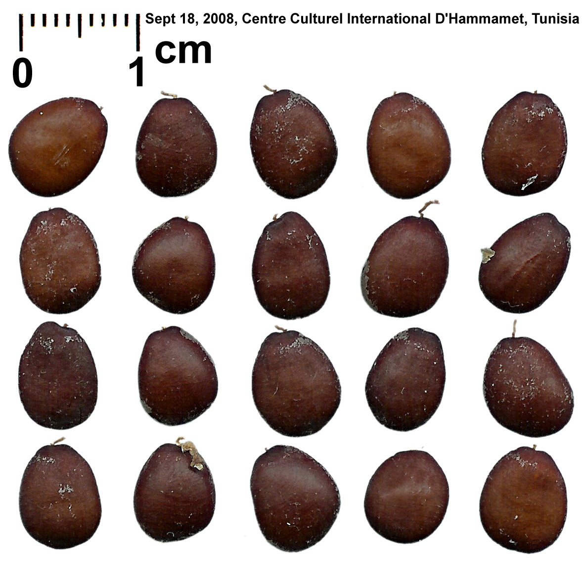 Carob(Ceratonia siliqua)seeds